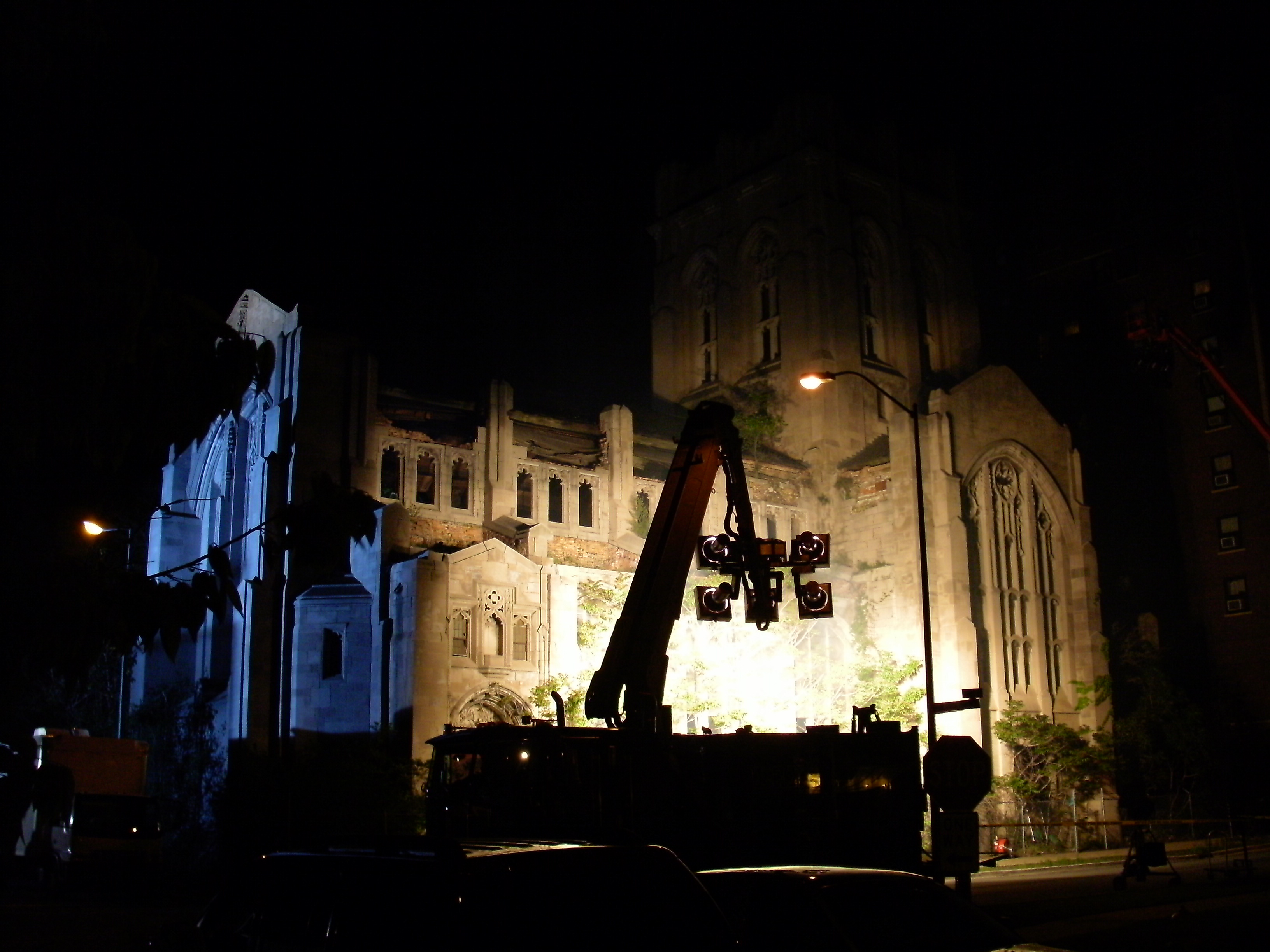 Filming of Nightmare on Elm Street at former City Methodist Church in Gary, Indiana.